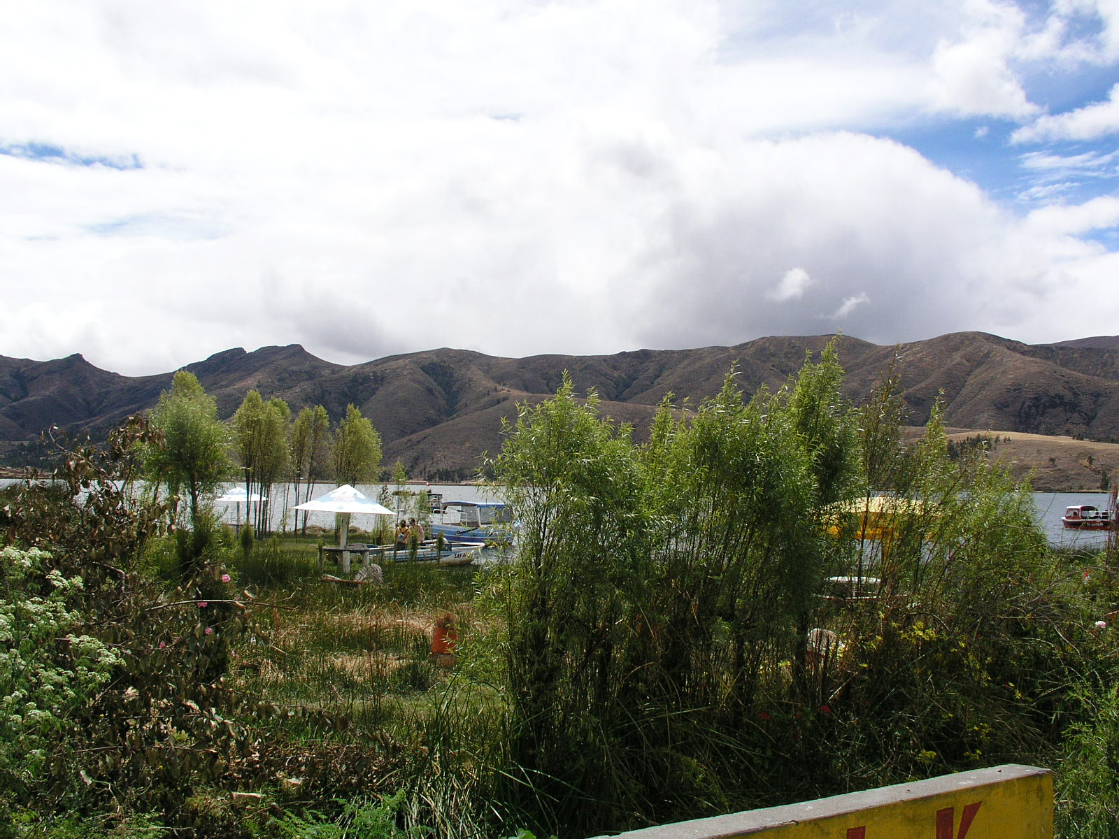 Lake "Laguna de Paca", Jauja, Valley of Mantaro, Junín, Peru. Note the mountains that form the shape of the Sleeping Inca, El Inca durmiendo